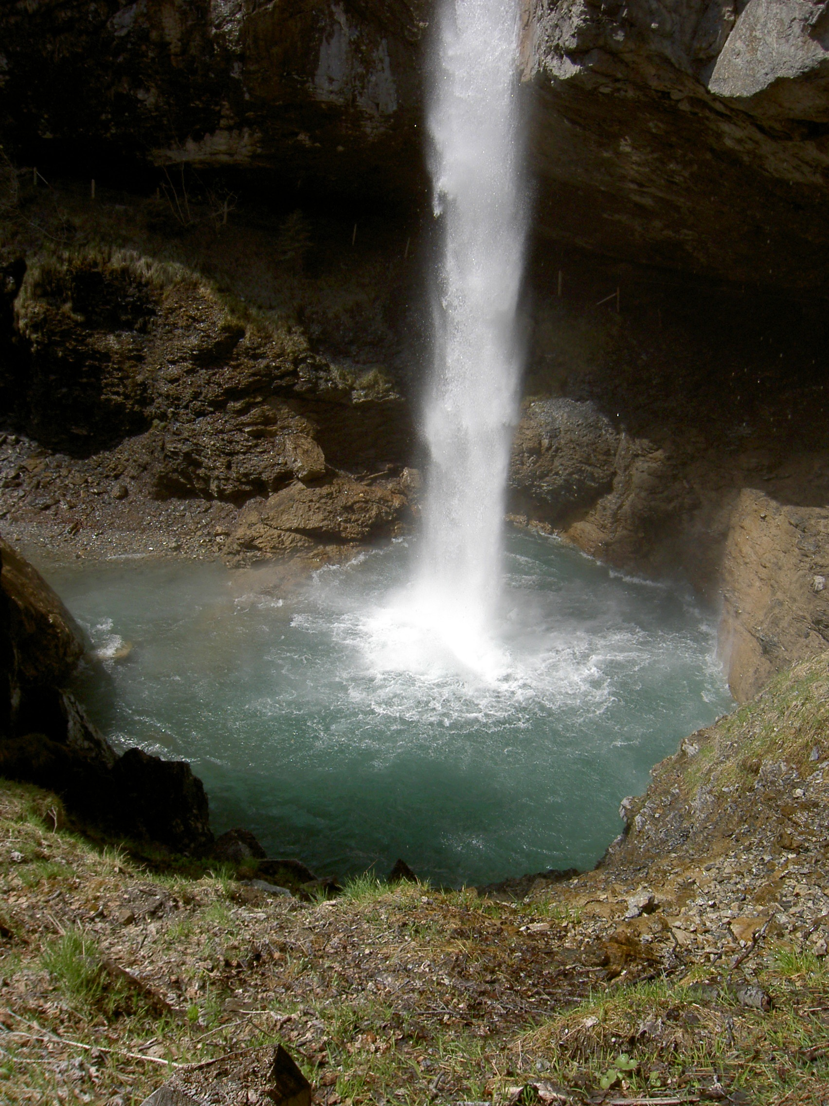 The waterfall Berglistüber on the Fätschbach stream, canton of Glarus